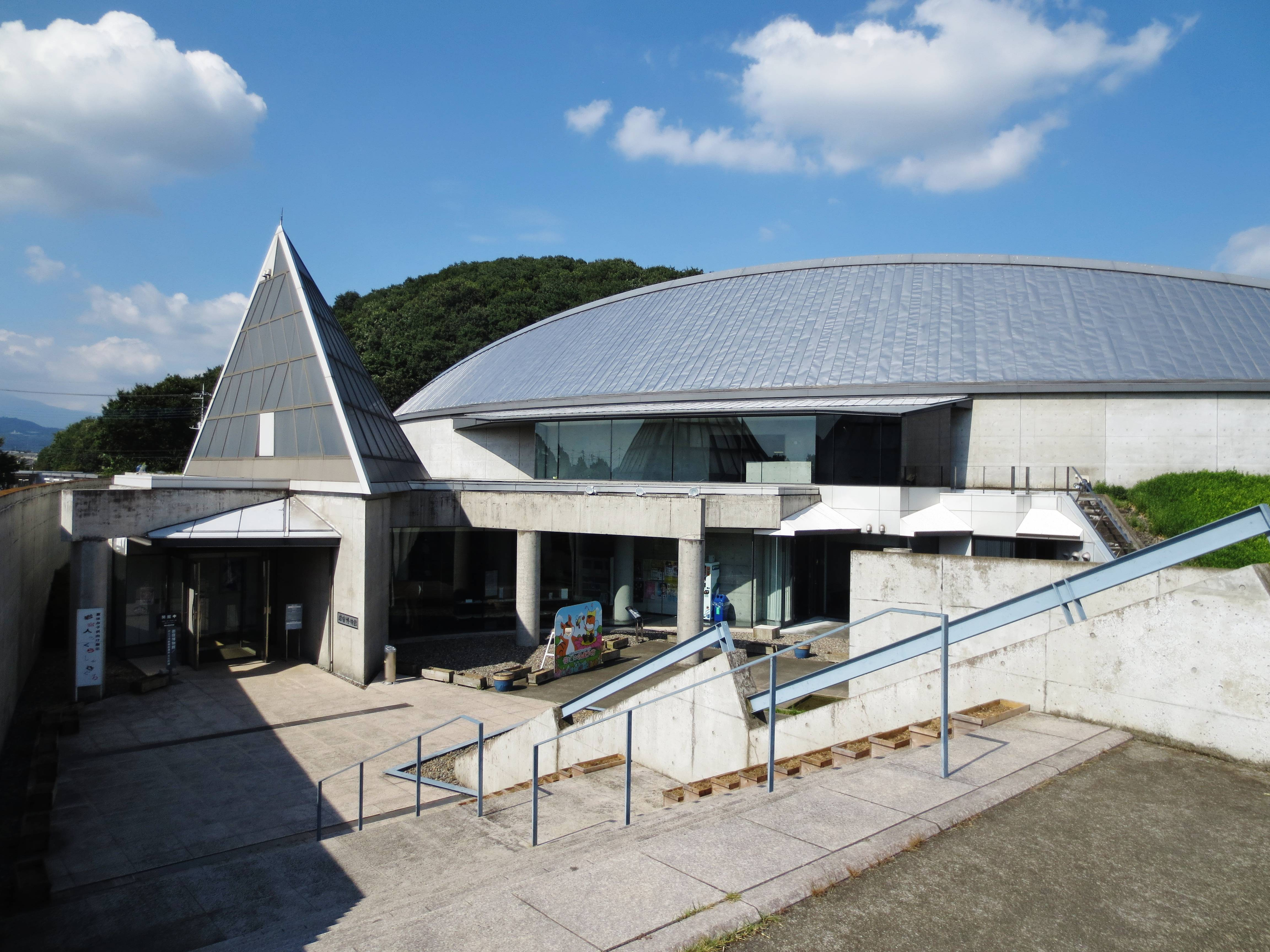 Iwajuku Museum.